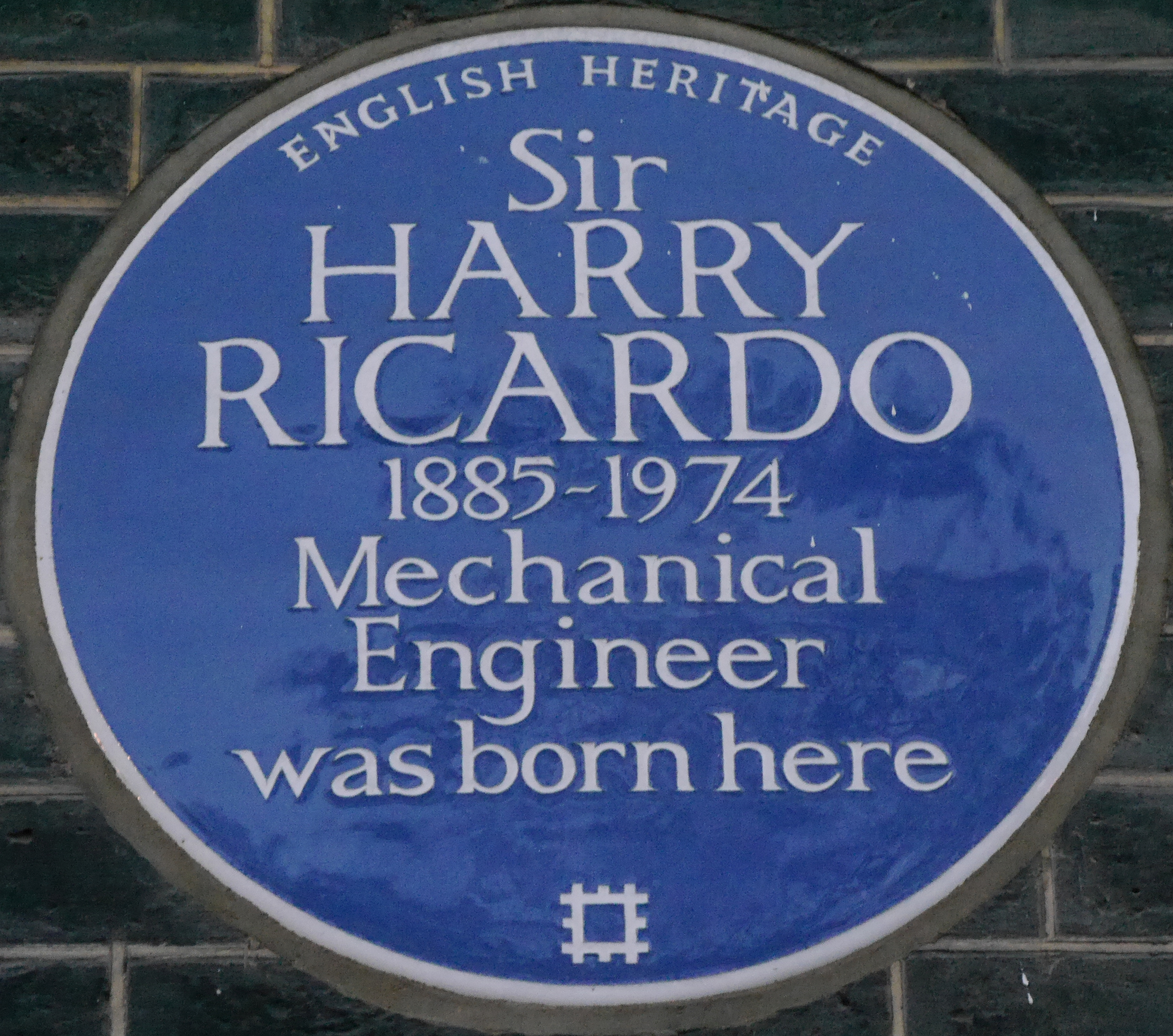 Harry Ricardo 13 Bedford Square blue plaque